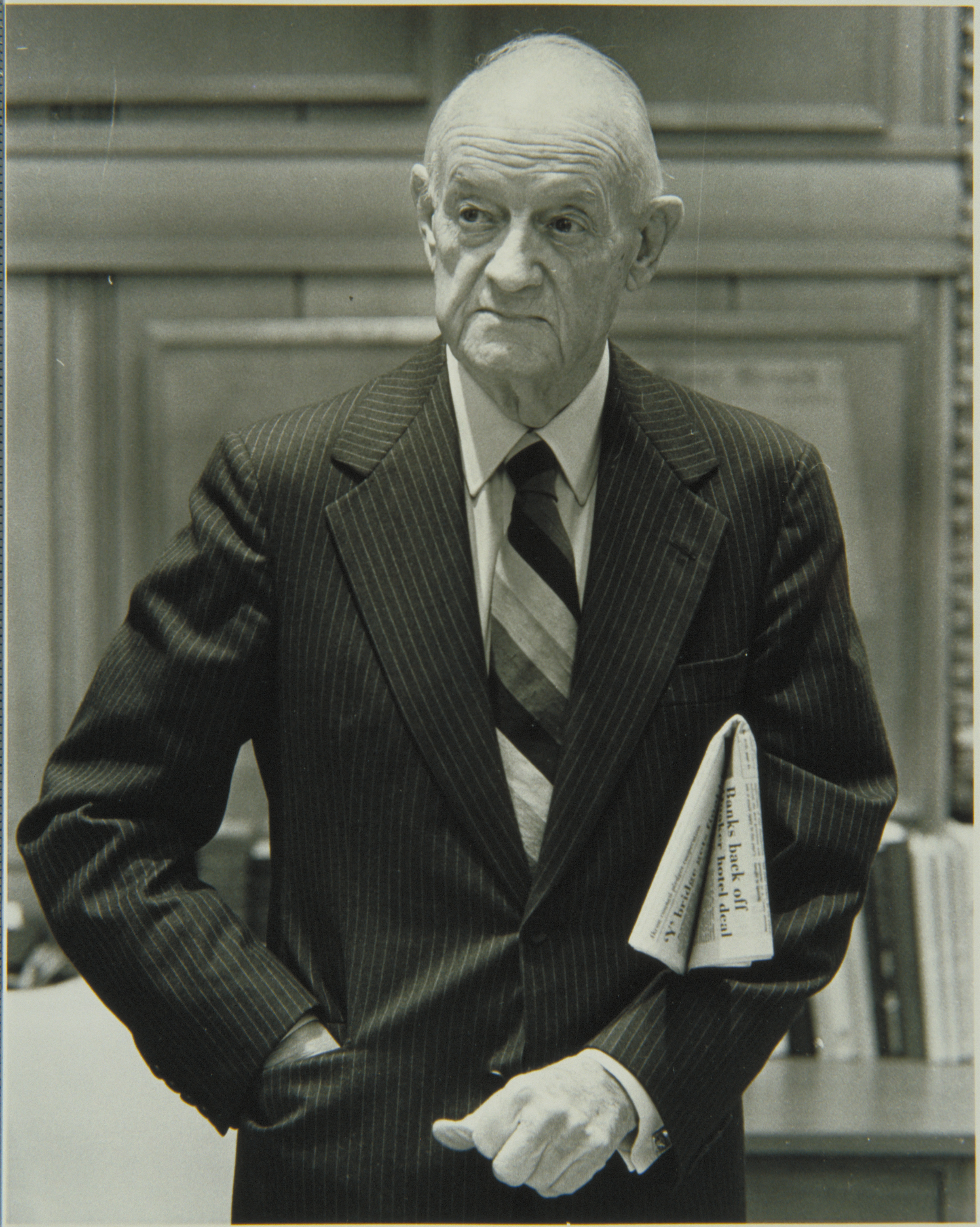 John S. Knight on Wall Street with a newspaper.